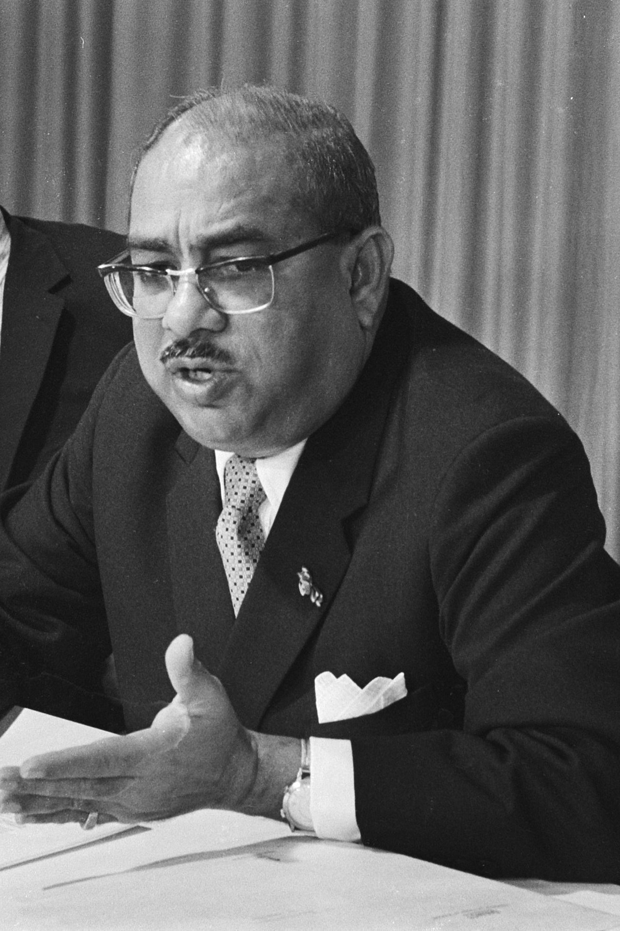 Harry Radhakishun during a press conference in 1971 about a KLM-SLM.